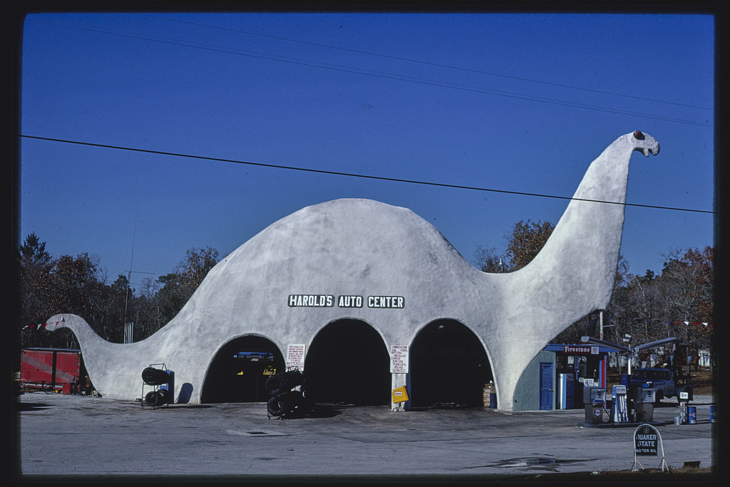 Margolies, John,, photographer. Harold's Auto Center, horizontal view, Sinclair gas station, Route 19, Spring Hill, Florida 1979. 1 photograph : color transparency ; 35 mm (slide format). Notes: Title, date and keywords based on information provided by the photographer. Margolies categories: Mimetic gas stations; Gas stations. Please use digital image: original slide is kept in cold storage for preservation. Credit line: John Margolies Roadside America photograph archive (1972-2008), Library of Congress, Prints and Photographs Division. Purchase; John Margolies 2007 (DLC/PP-2007:125). Forms part of: John Margolies Roadside America photograph archive (1972-2008). Subjects: Automobile service stations--1970-1980. Mimetic buildings--1970-1980. United States--Florida--Spring Hill. Format: Slides--1970-1980.--Color For more information, see "John Margolies Roadside America Photograph Archive - Rights and Restrictions Information" Repository: Library of Congress, Prints and Photographs Division, Washington, D.C. 20540 USA, Part Of: Margolies, John John Margolies Roadside America photograph archive (DLC) 2010650110 General information about the John Margolies Roadside America photograph archive is available at Higher resolution image is available (Persistent URL): Call Number: LC-MA05- 2